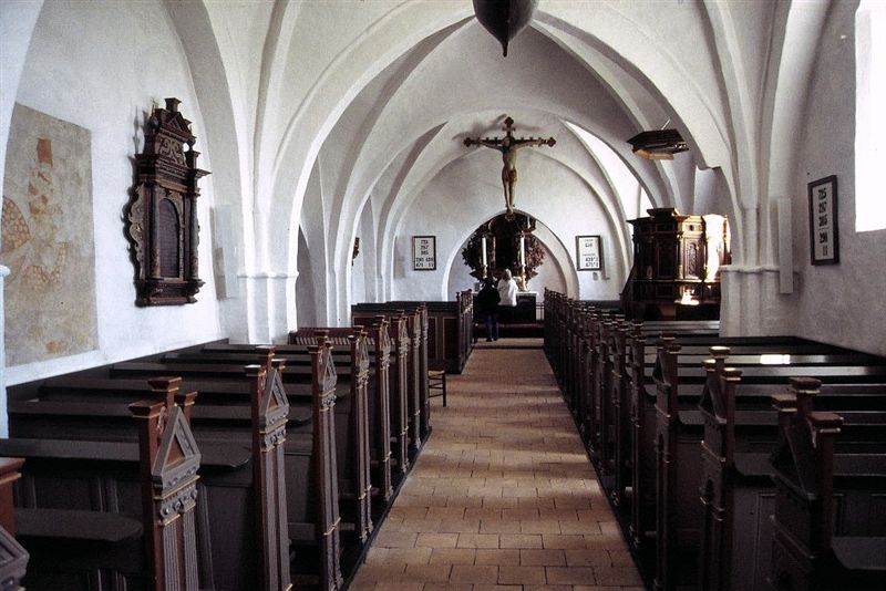 Fårevejle Kirke (church) in Odsherred Kommune. From apr. 1100